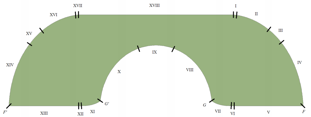 A computed version of Gerver's sofa annotated to show the 18 curve sections